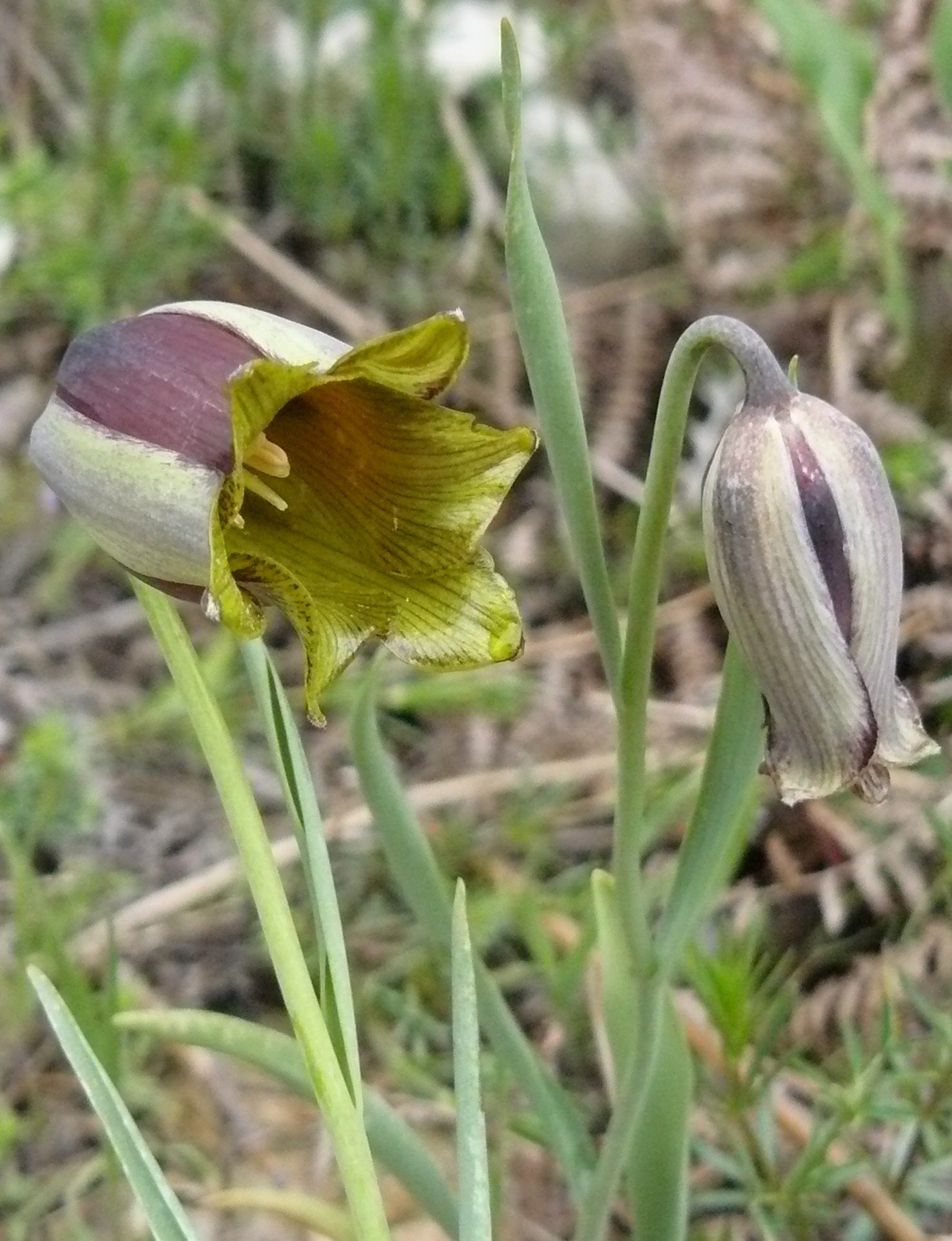 Lebanese Fritillary growing in its natural habitat in the North Lebanon range, in Qammoua forest.